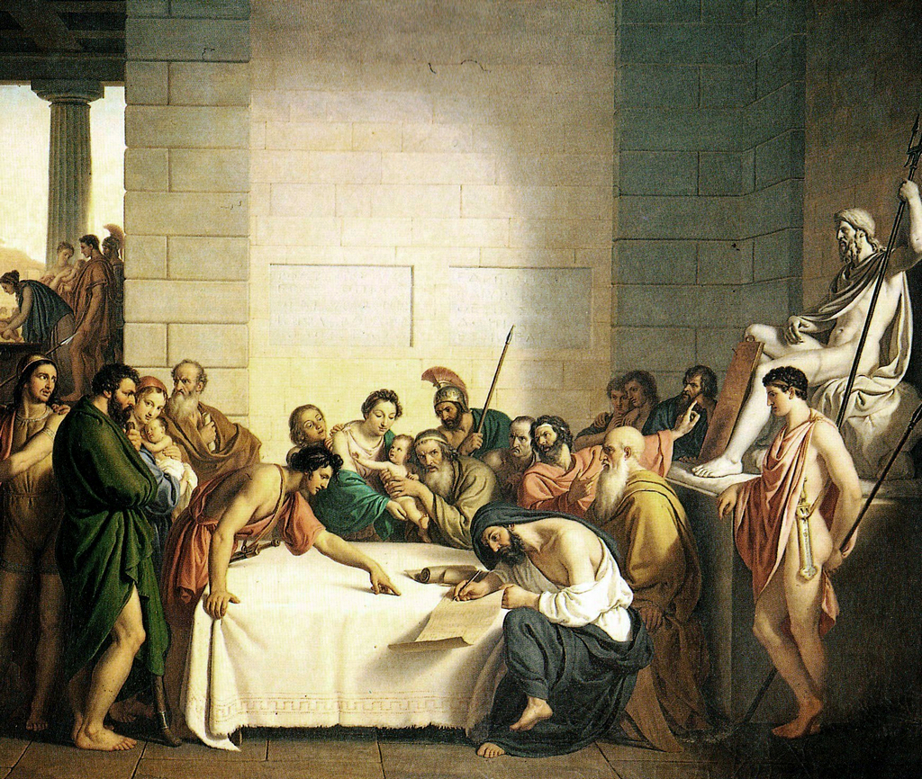 The selection of the infant Spartanslabel QS:Lit,"Selezione dei neonati spartani" label QS:Len,"The selection of the infant Spartans"